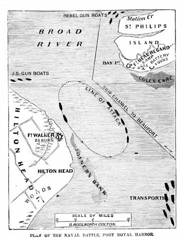 Plan of the Battle of Port Royal of November 7, 1861